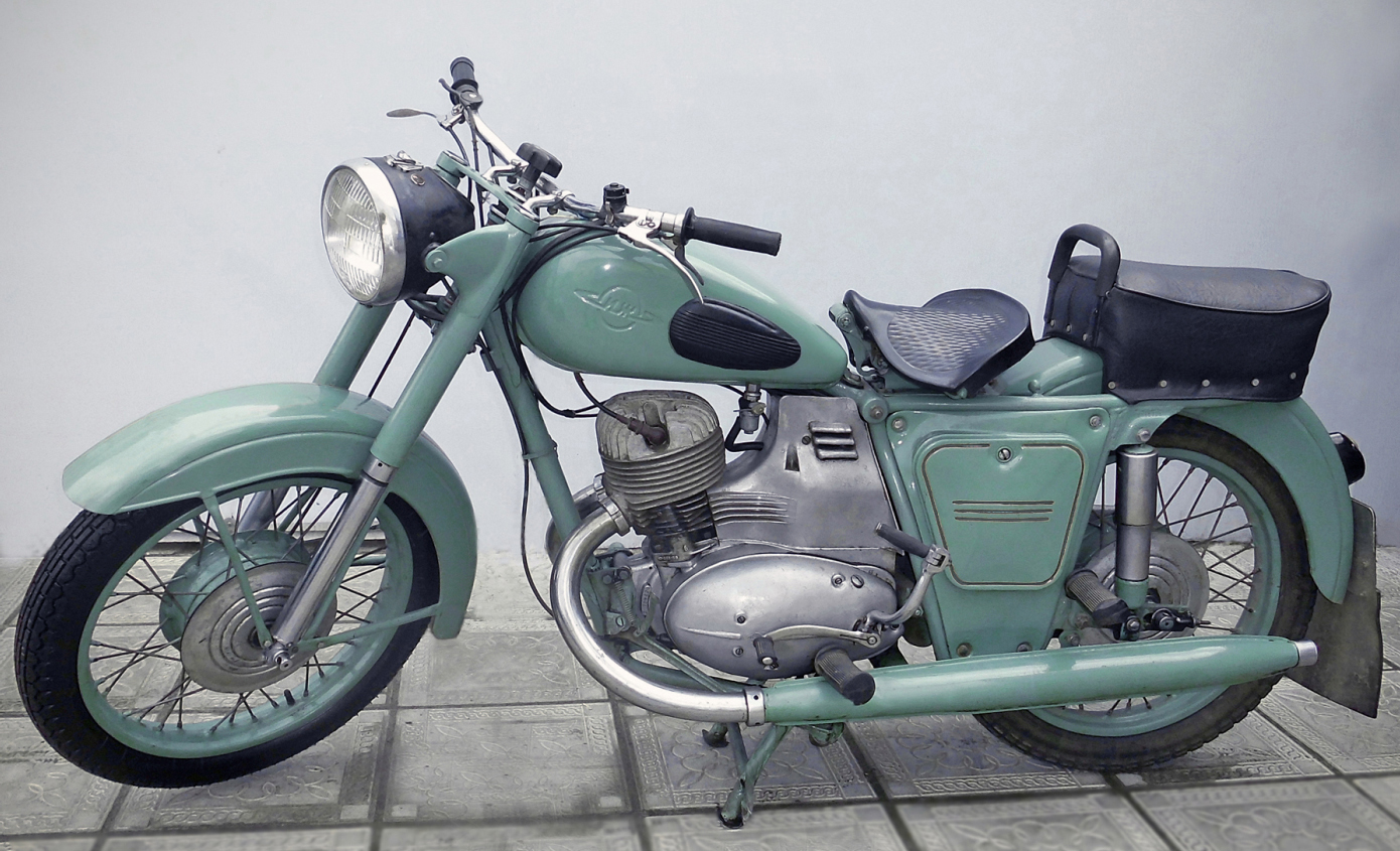 Motorcycle IZH-56 1956